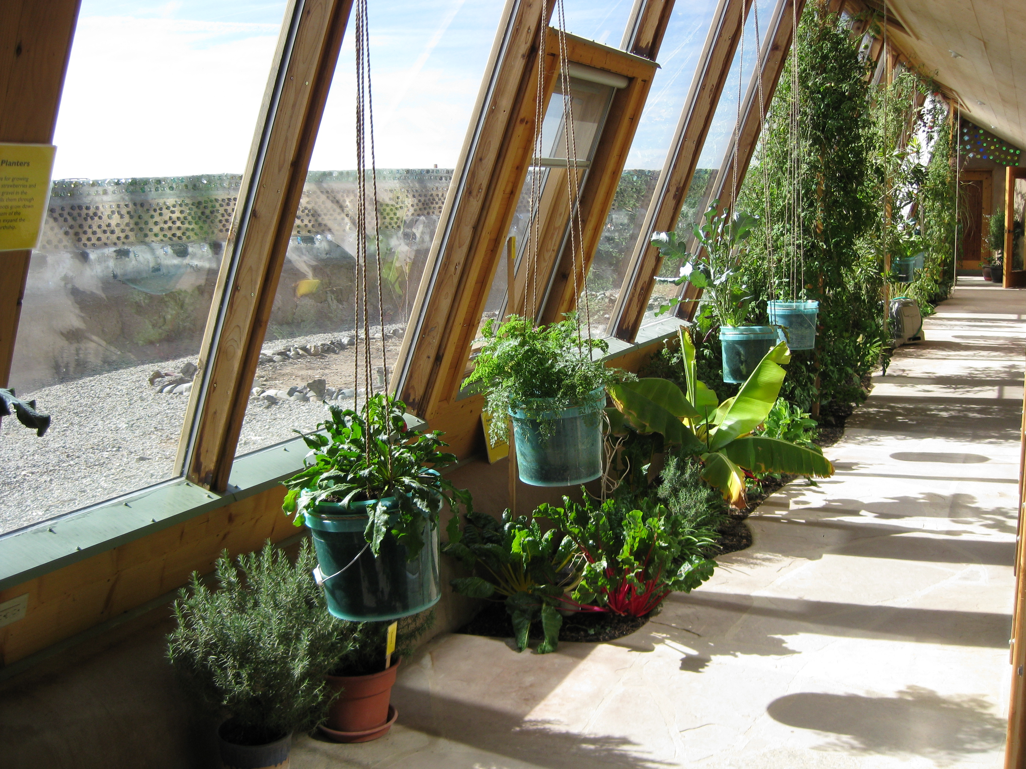 Interior greenhouse of Earthship educational facility